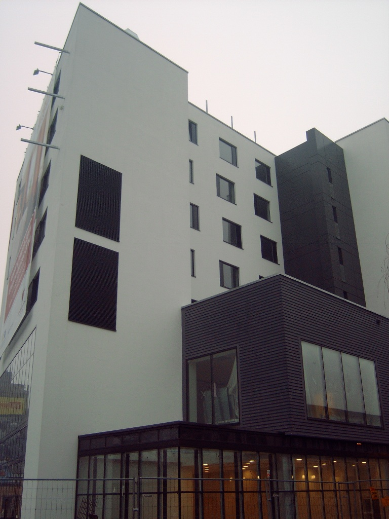 Hotel Angelo in Katowice